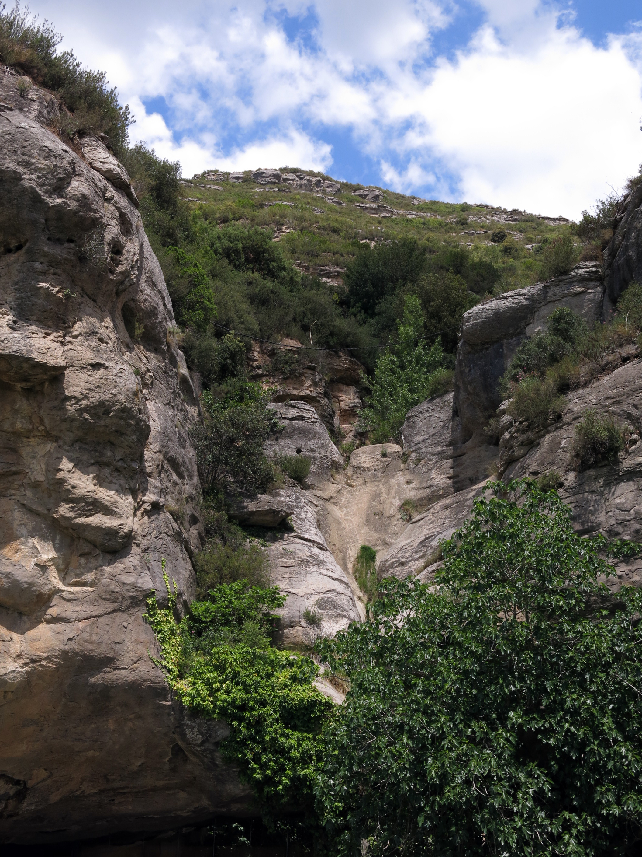 This is a a photo of a natural area in Catalonia, Spain, with id: ES510097